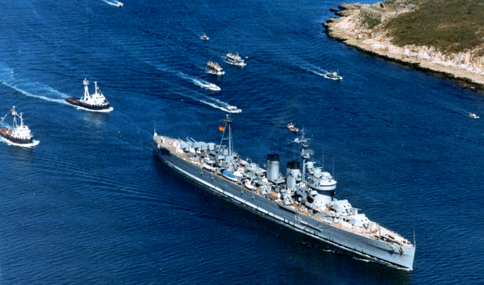 The Spanish heavy cruiser Canarias (C21) off El Ferrol, Spain, on the way to the scrapyard, in 1977.